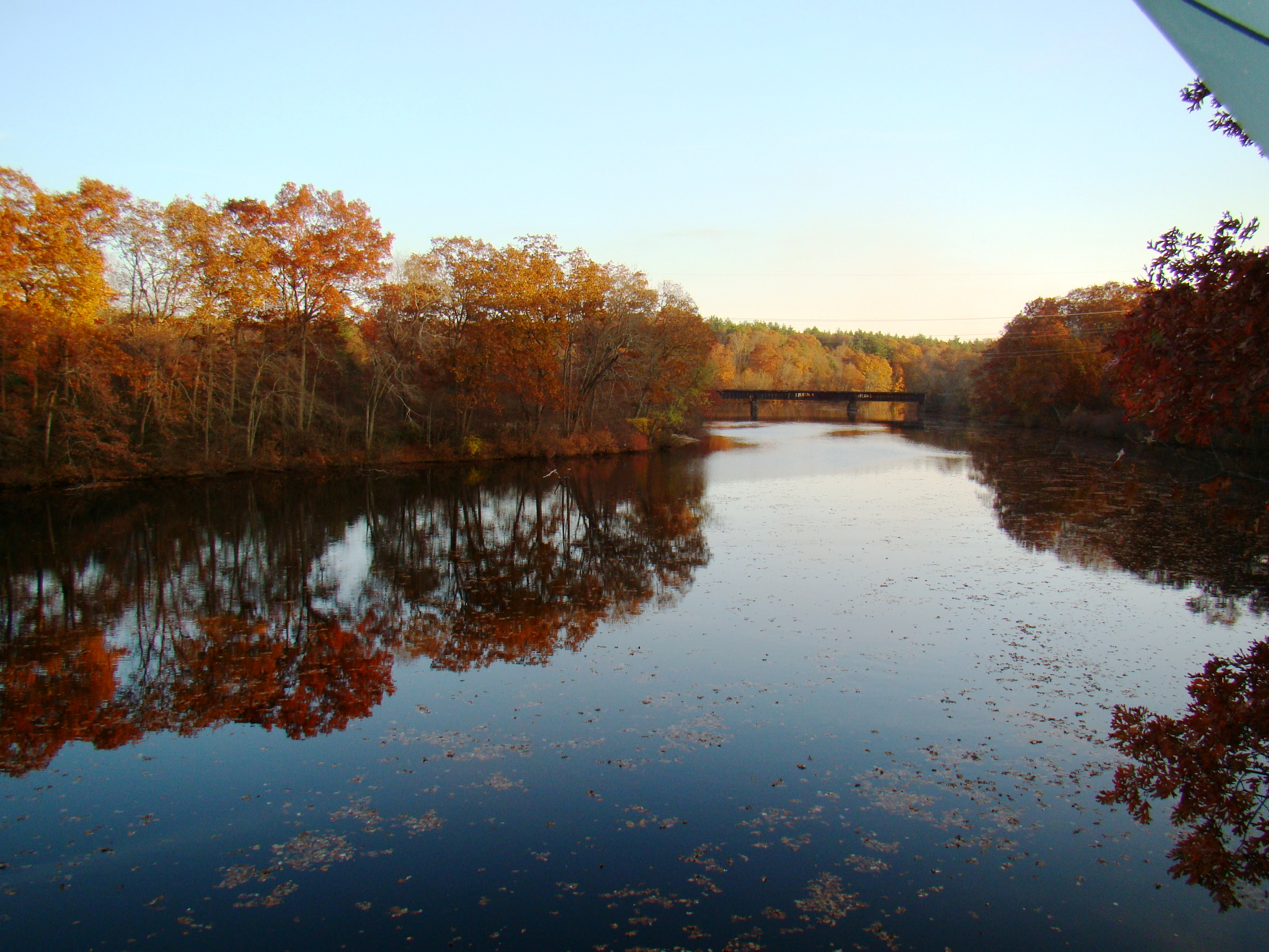 National Historic Place, Butts Bridge Rd. over Quinebaug River